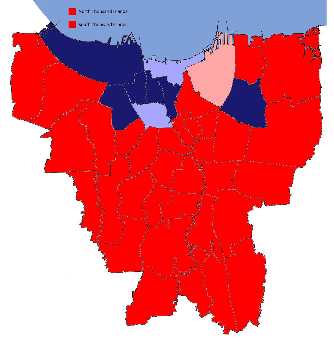 Map of the district results of the 2017 Jakarta gubernatorial election. Districts won by Anies Baswedan are in red (■), while the ones won by Basuki Tjahaja Purnama are in blue (■). Lighter shades (■or■) indicate a winning majority of less than 5%.